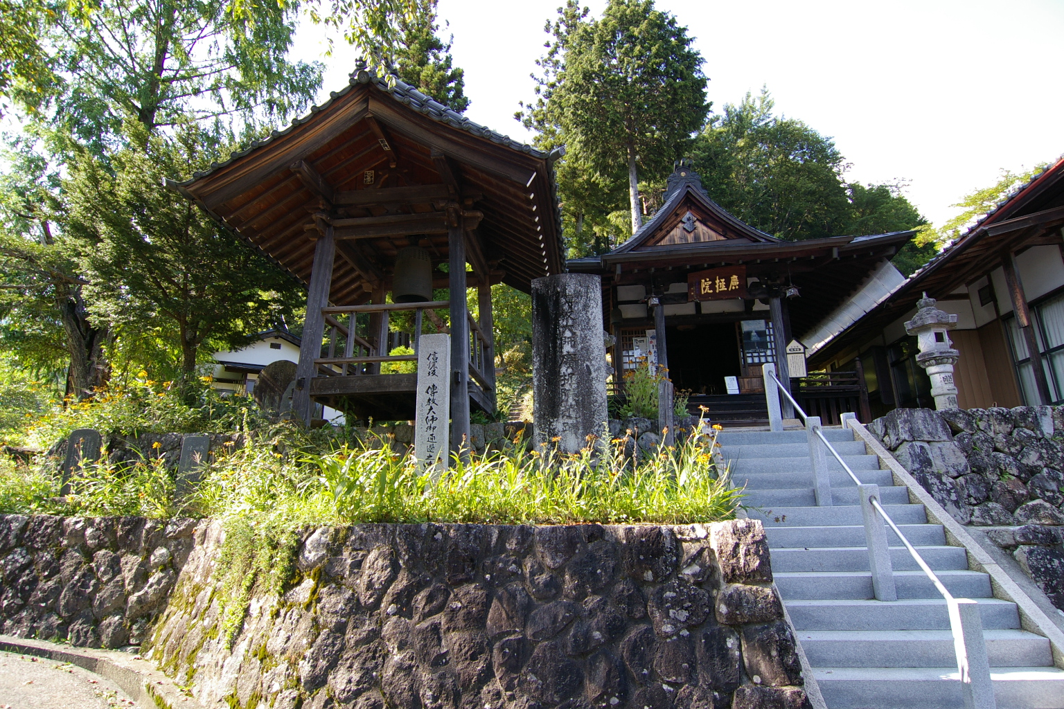 Misaka Pass (Achi, Nagano Pref., Japan)